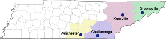 Map of the divisions of the United States District Court for the Eastern District of Tennessee, with central offices